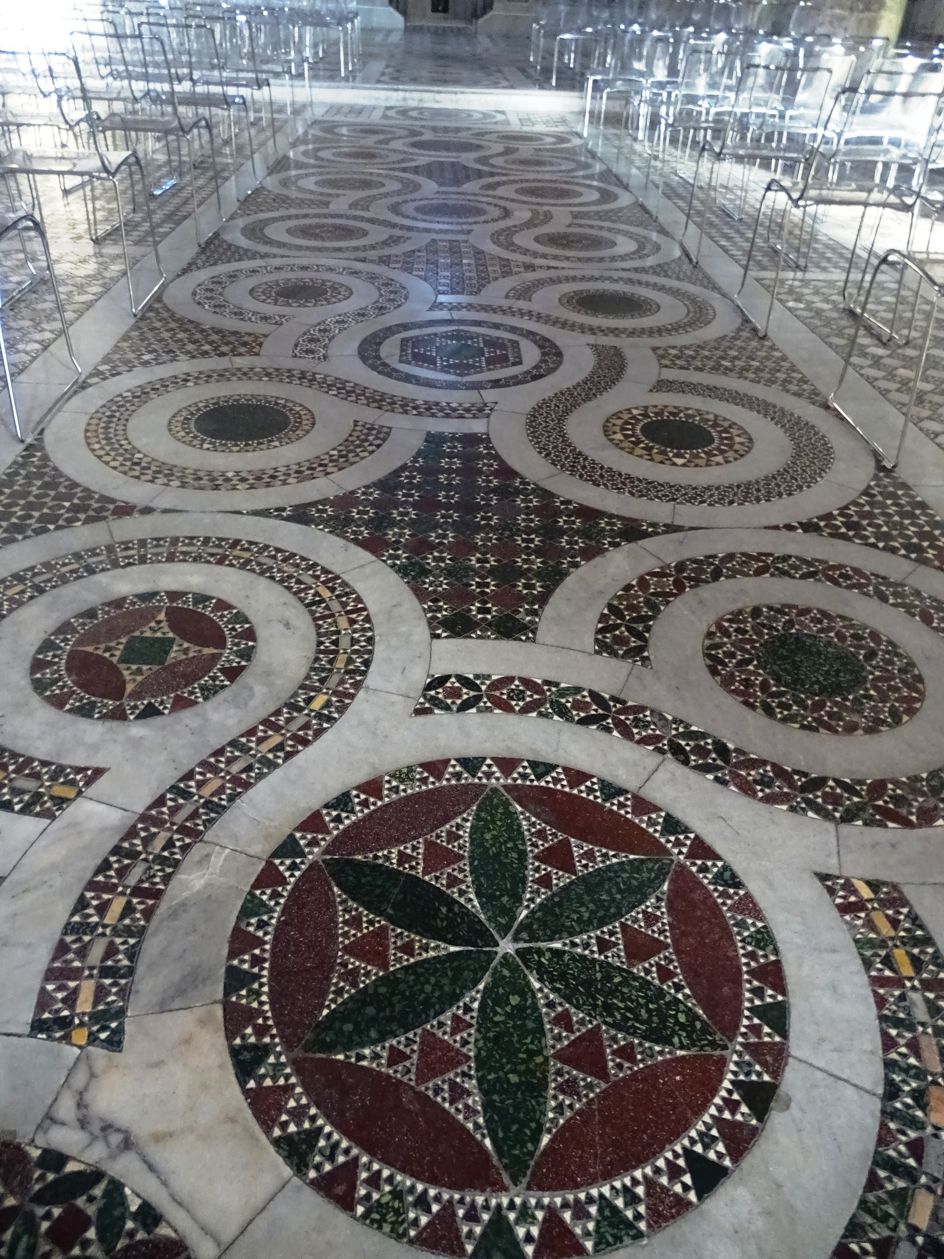 Cathedral Anagni, Italy